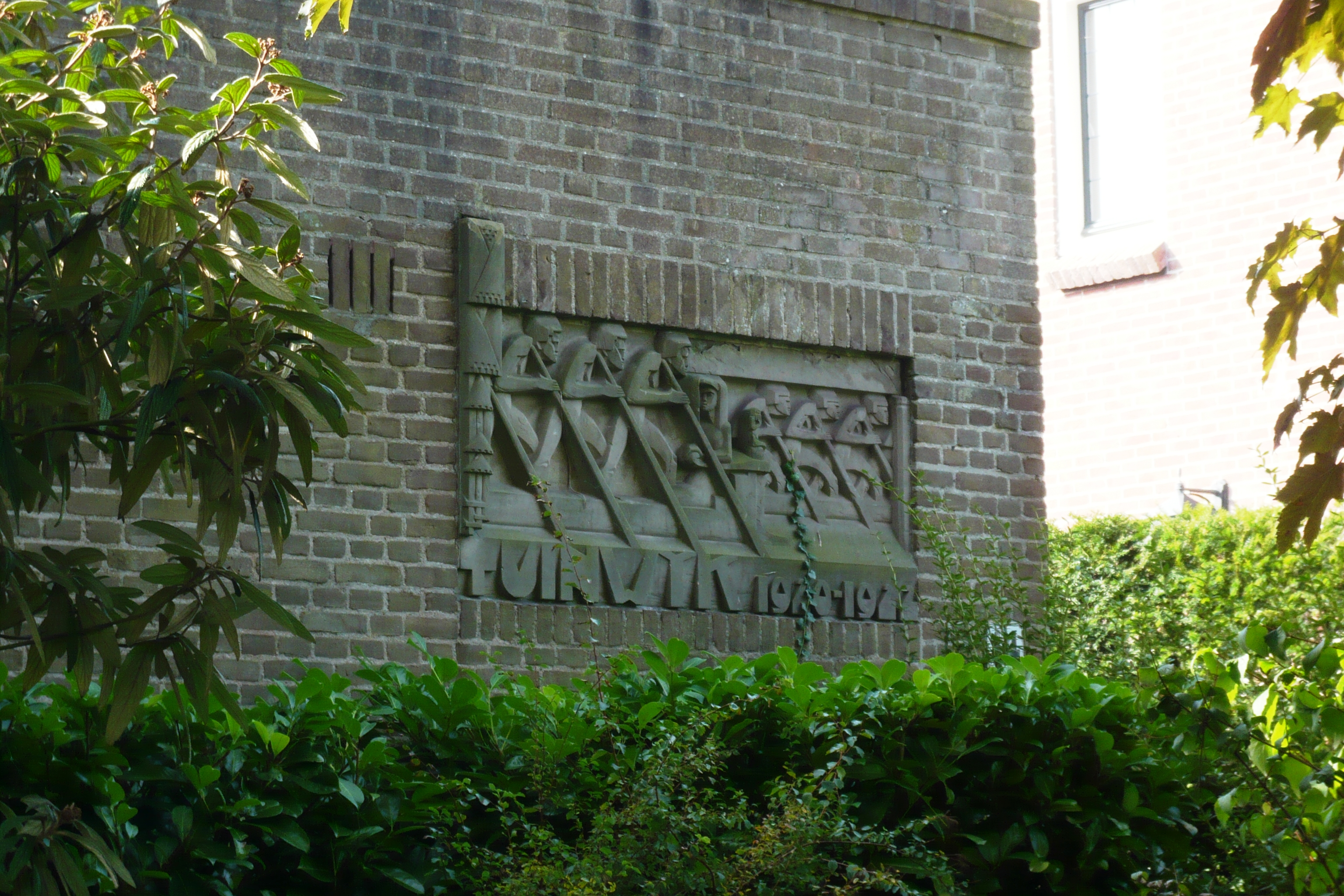 Tuinwijk, early 1920s suburban development by J. van Loghem (Han van Loghem), Haarlem.